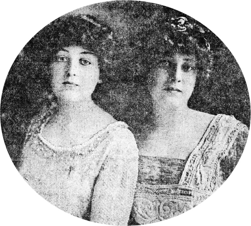 Katherine and Madeleine Force 1908. Madeleine Force (on the right) later married John Jacob Astor IV.